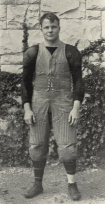 William Wiles Elder pictured in Gulielmensian 1908, Williams College yearbook, page 223